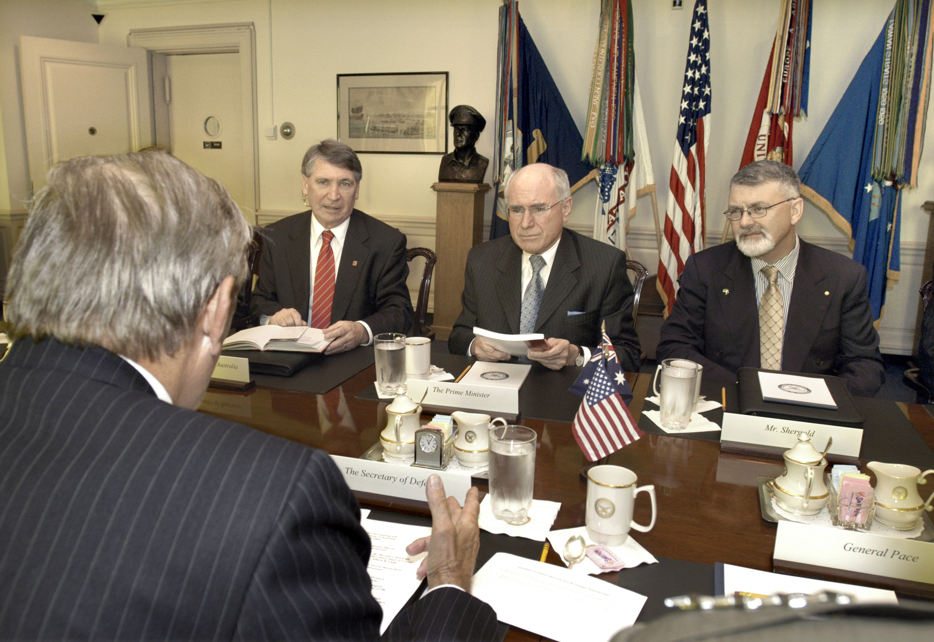 Australian Ambassador to the US Dennis Richardson, Prime Minister John Howard, and Peter Shergold, secretary, Department of the Prime Minister and Cabinet, meet US Secretary of Defense Donald Rumsfeld (back to the camera) at the Pentagon.